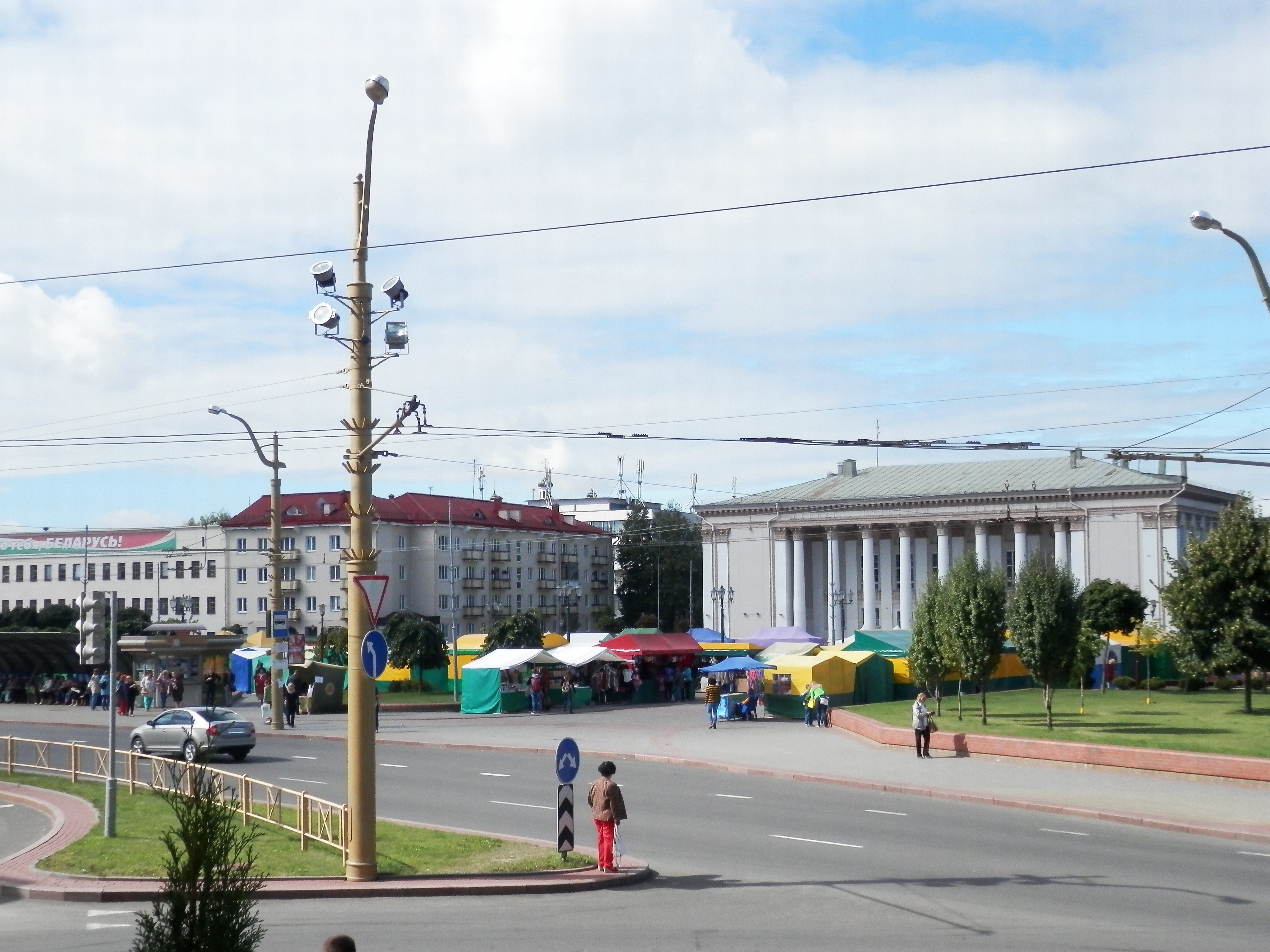 Sightseeing of Grodno